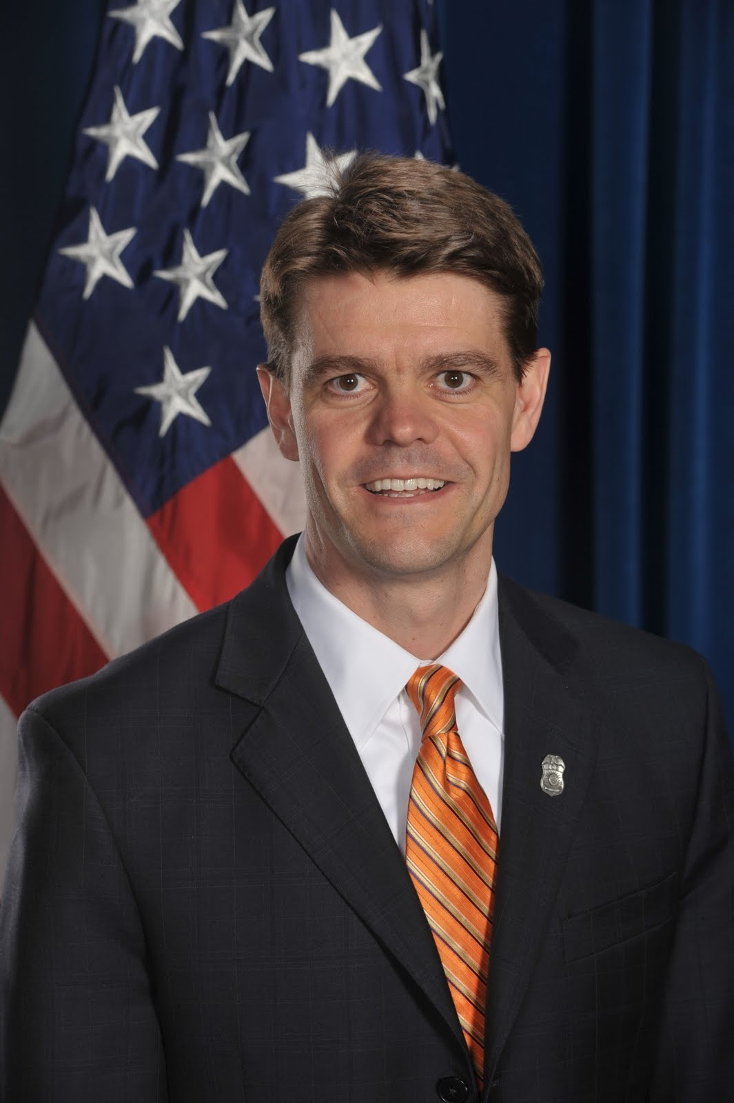 Official photo of John Morton, Director of U.S. Immigration and Customs Enforcement.